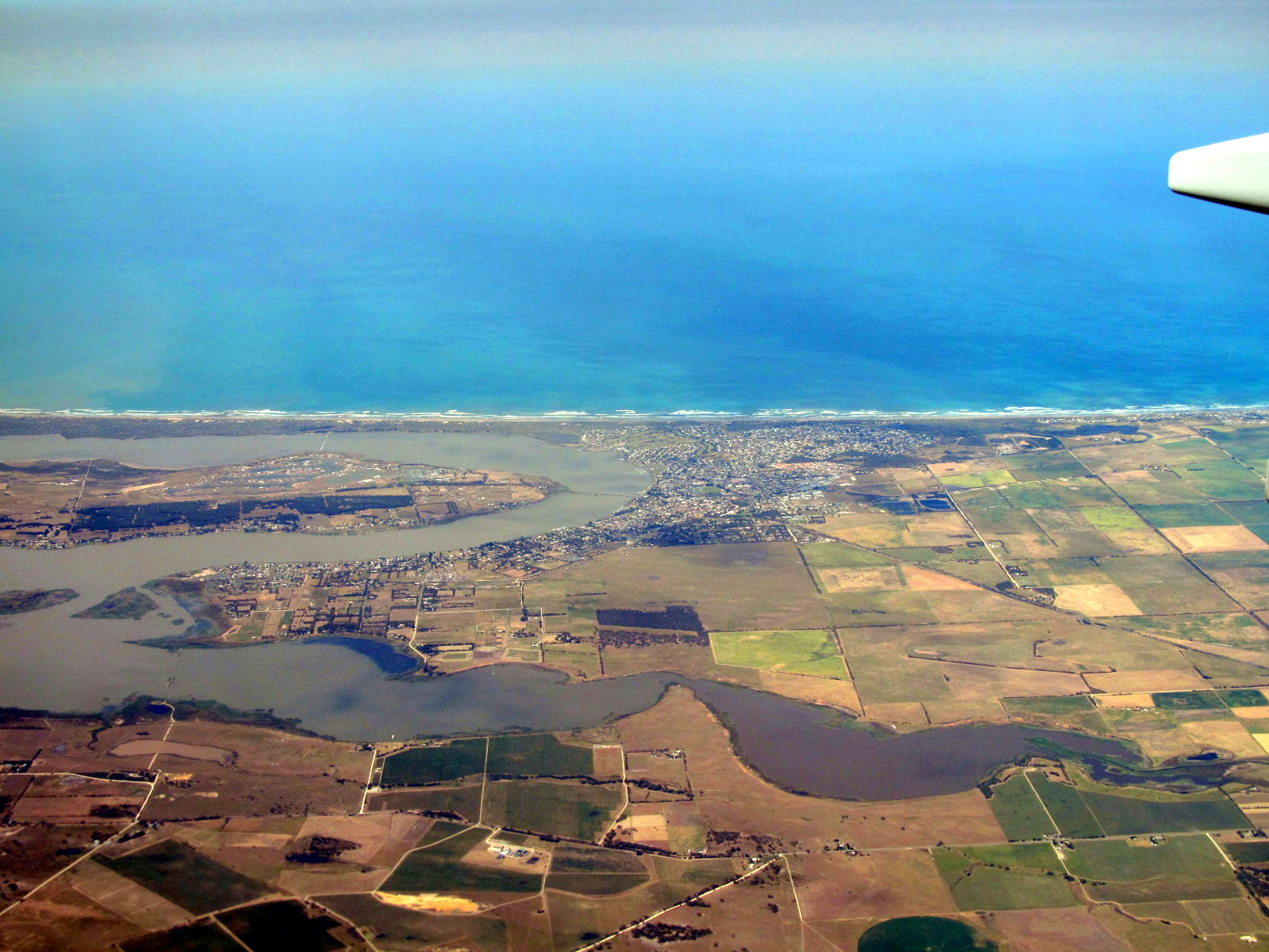 Aerial photo of Goolwa, South Australia